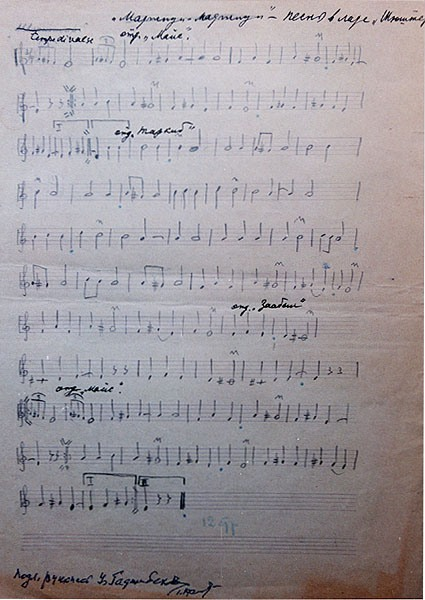 Notes of Majlun-Majlun tesnif (song) based on Shushtar mugham by Uzeyir Hajibeyov